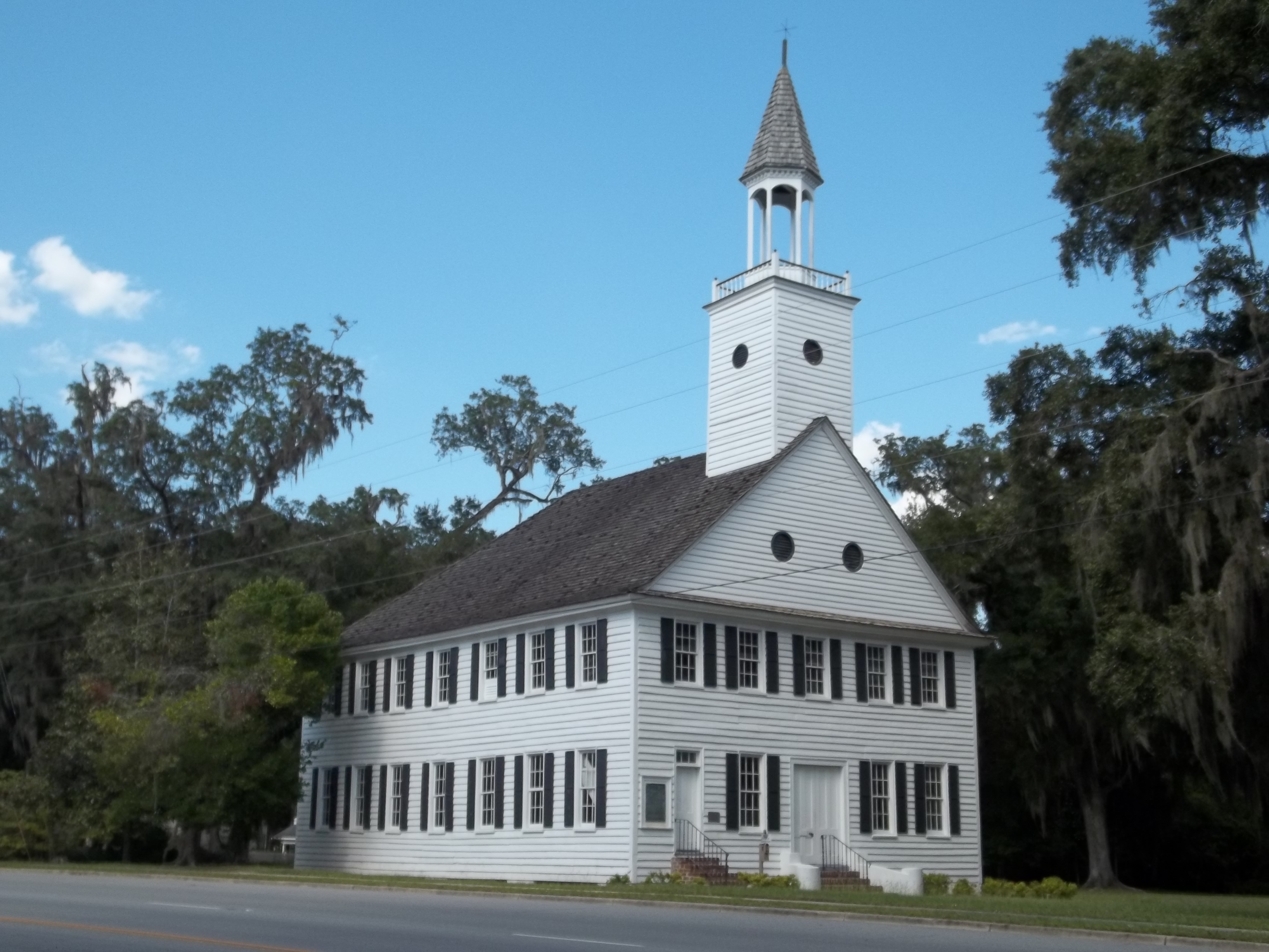 Midway, Georgia: Midway Historic District: Midway Church, built in 1792.